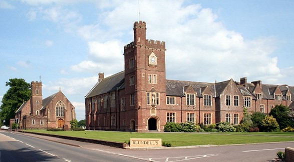 Tiverton: Blundells. The public school straddles the road to Halberton. Looking east-north-east